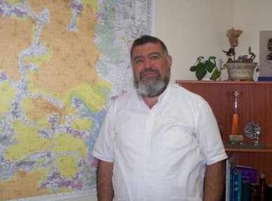 Gershon Mesika